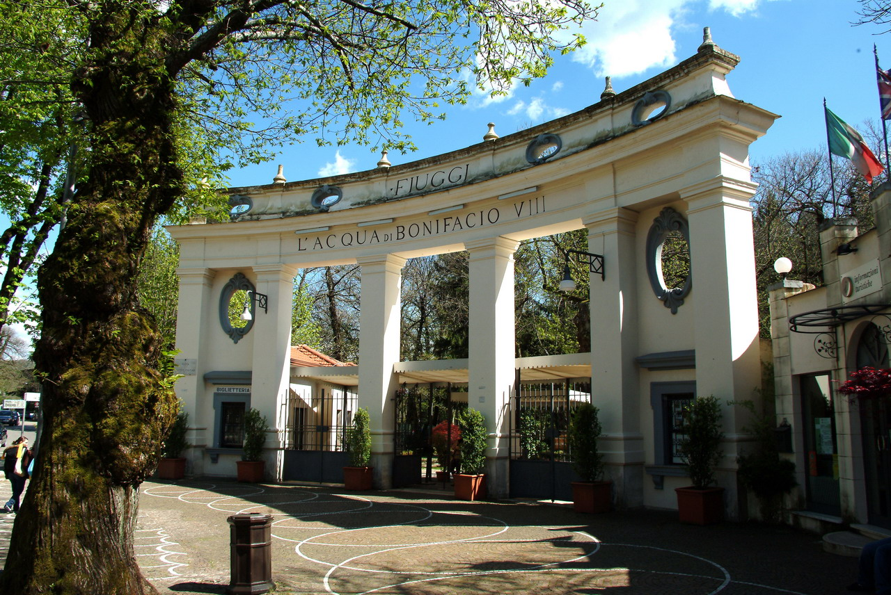 Terme di Bonifacio VIII